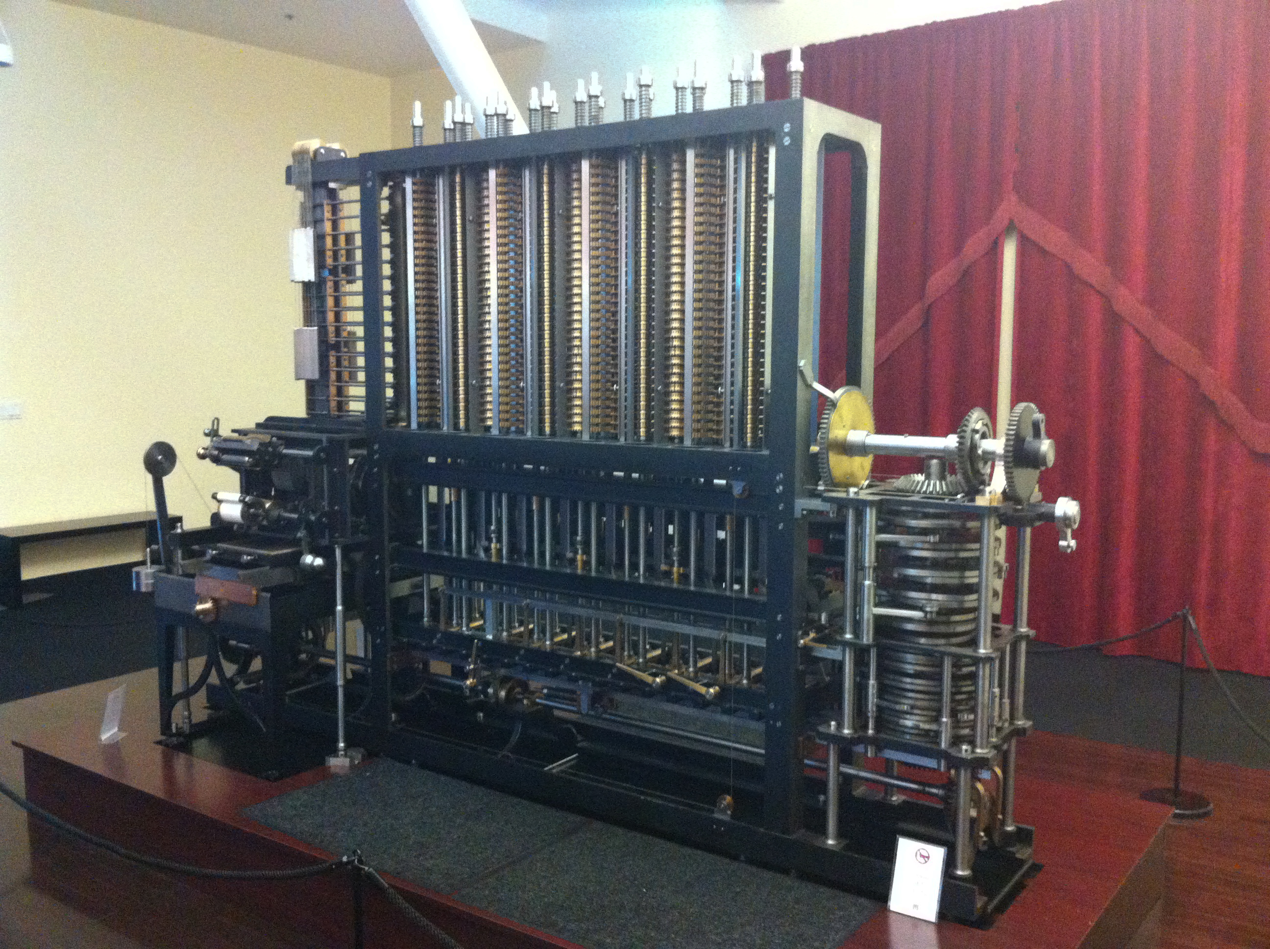 Charles Babbage Difference Engine No. 2 Computer History Museum in Mountian View California